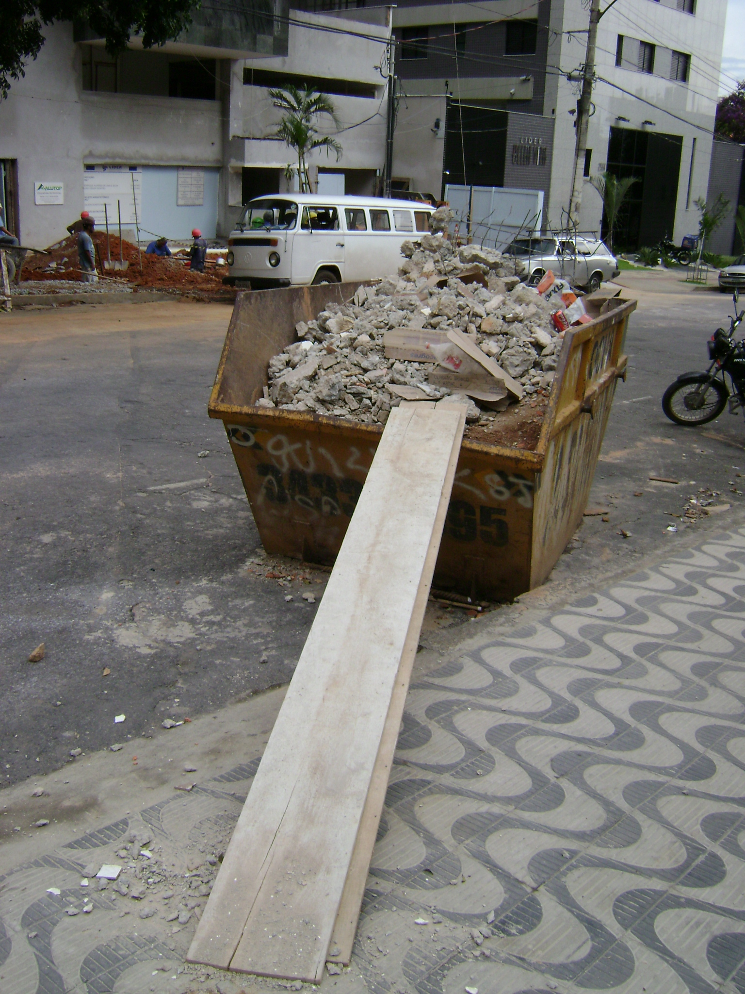 A skip in Belo Horizonte, Brazil.